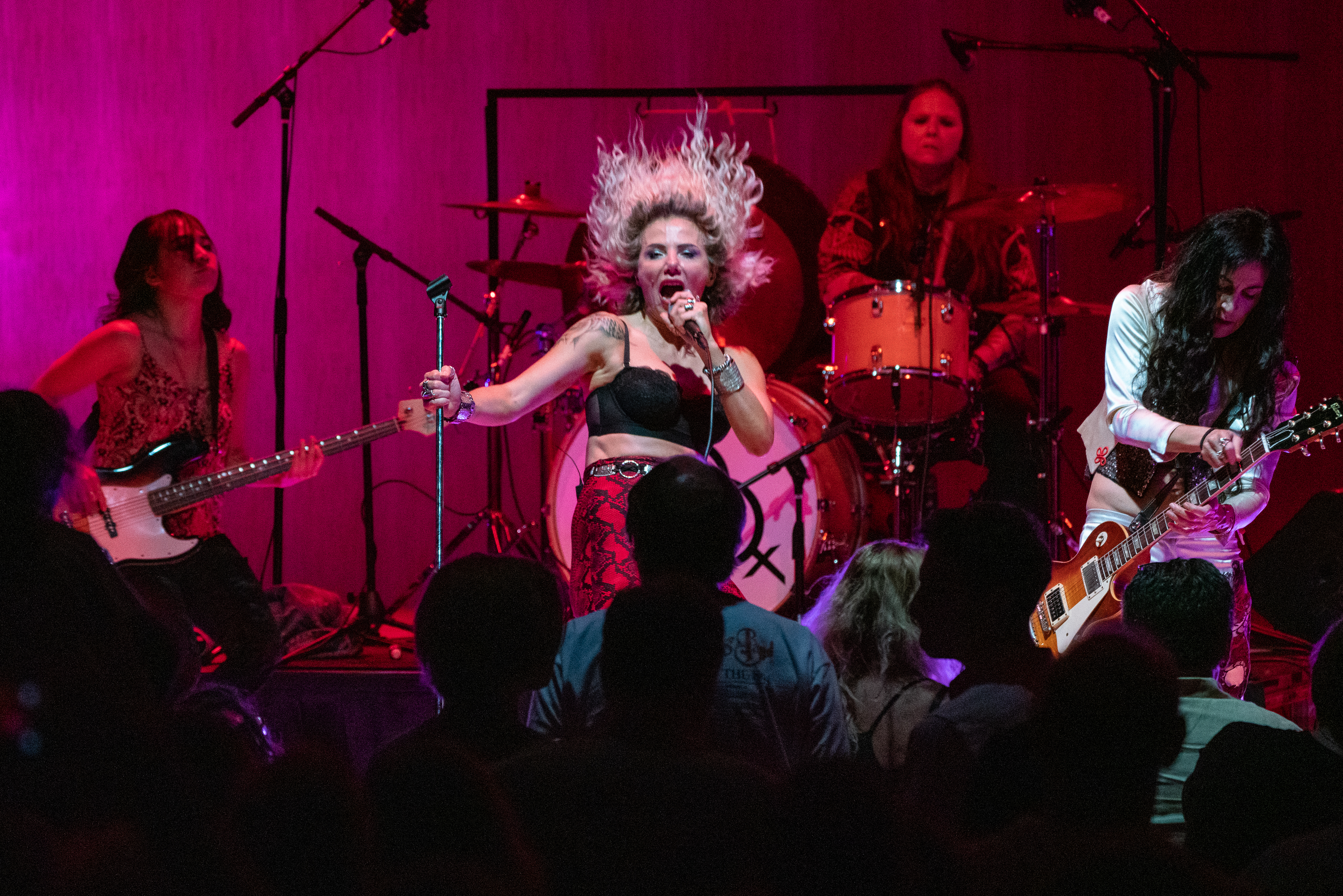 Lez Zeppelin at the Metropolitan Museum of Art